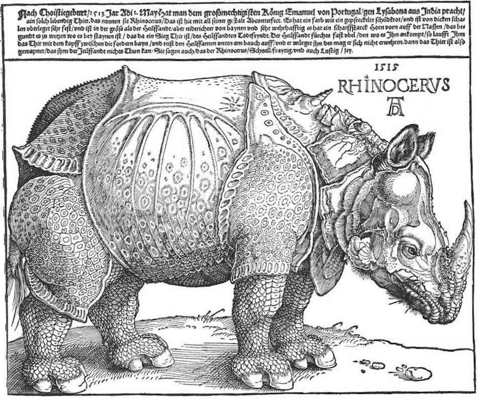 The rhinoceros shown here was brought to Lisbon (Portugal). It was a present of Sultans Muzafar for the portuguese viceroy, who eventually passed it on to Dom Manuel. Initially, the animal was kept at the Torre de Belém. By december 1515 the rhinoceros was send to rome, as a present for pope Leo X. Unfortunately, the ship sank, including the precious animal. The text at the top of drawing says (translated from 16th century german to english): "In the year 1515 1. May anno Domini one has brought Emanuel, the big and mighty king of portugal, such an animal from india to portugal. It is called Rhinozeros. It is illustrated here with all its likeness.It is colored like a speckled turtle. And it is covered by thick shells. And it has the size of an elephant, but short legs and it is well-fortified. It has a sharp, strong horn on the nose. Which is whetted, if it find stones somewhere.This animal is an deadly enemy of the elephant. The elephant is afraid of it, because if they meet, the rhinozeros runs through the forelegs of the elephant and disembowel the belly and kills him. The elephant is not able to protect himself at all, since the rhinozeros is so well armed, the elephant cannot do anything. It is being said, the rhinozeros is quick, brave, and sly."